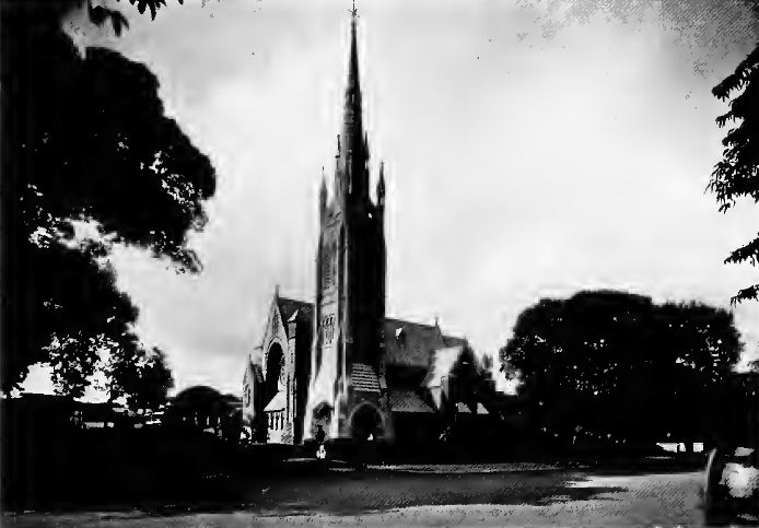 Holy Trinity Cathedral, Rangoon